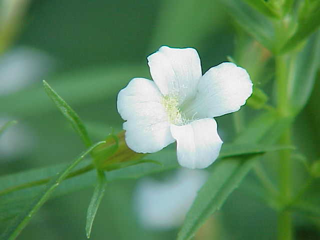 Species: Gratiola officinalis Family: Scrophulariaceae Image No. 1